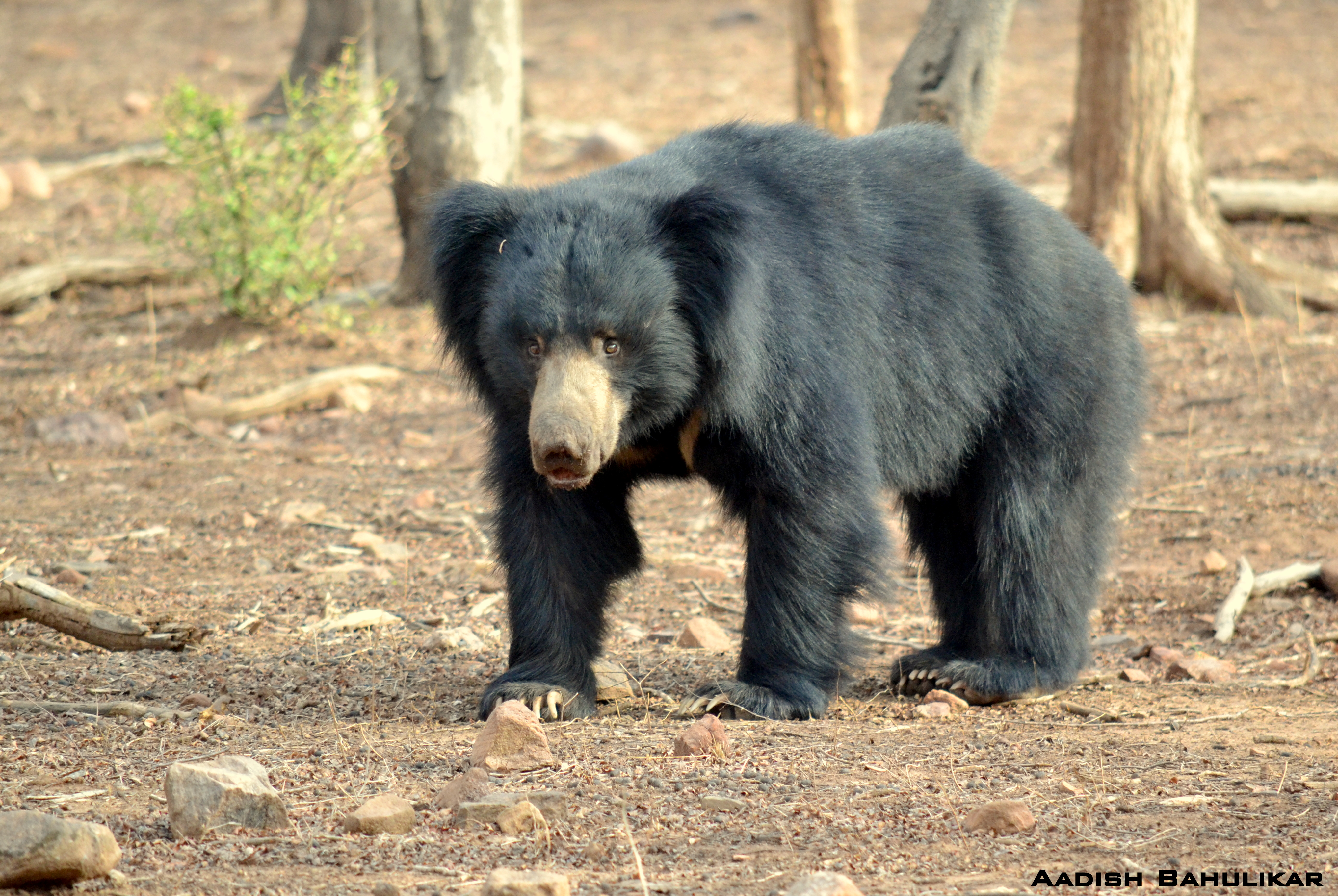 Sloth Bear